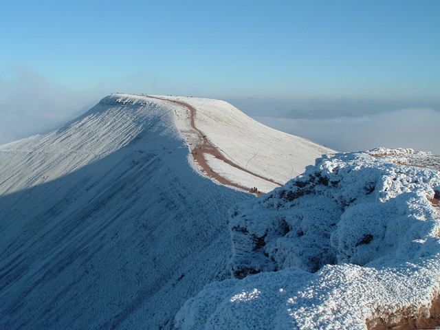 Pen y Fan from Corn Du